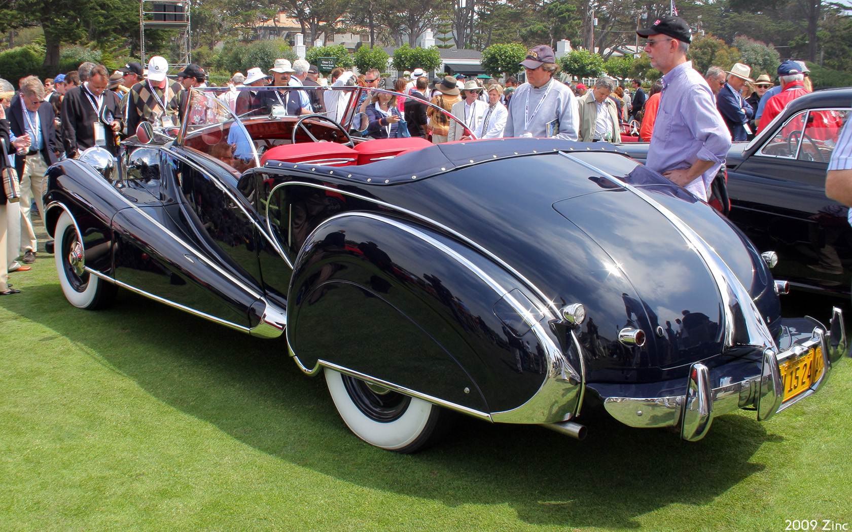 1947 Rolls-Royce Silver Wraith Inskip Cabriolet - chassis WZB36